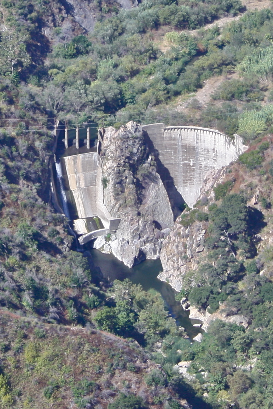 The ghostly Rindge Dam in Malibu Canyon — in the Santa Monica Mountains, Southern California. The 1926 concrete dam on Malibu Creek, seen from Las Virgenes Road, is located in Malibu Creek State Park.